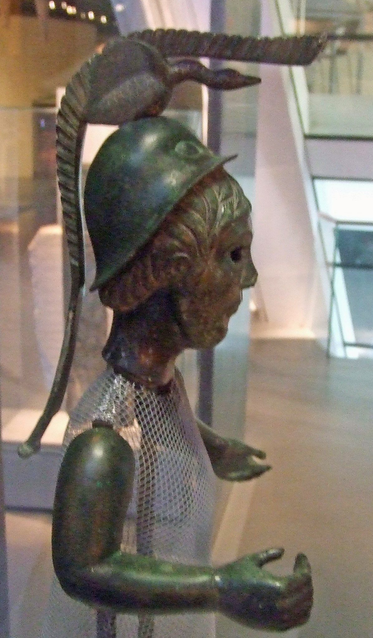 statue of a Celtic goddess, probably Brigid (Brigantia) in a persona identified with Minerva.